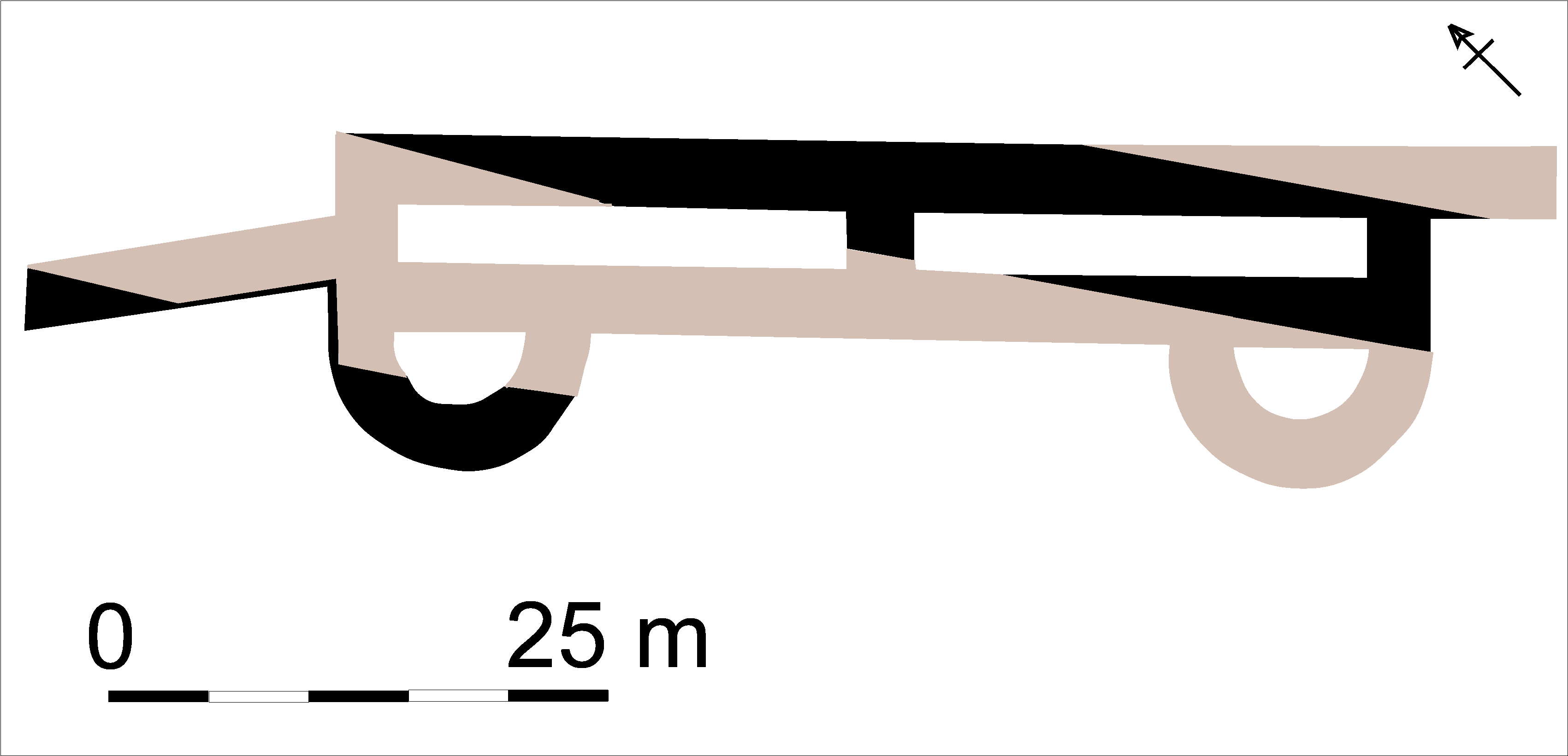 City gate of Roman Cirencester, plan of the excavated parts